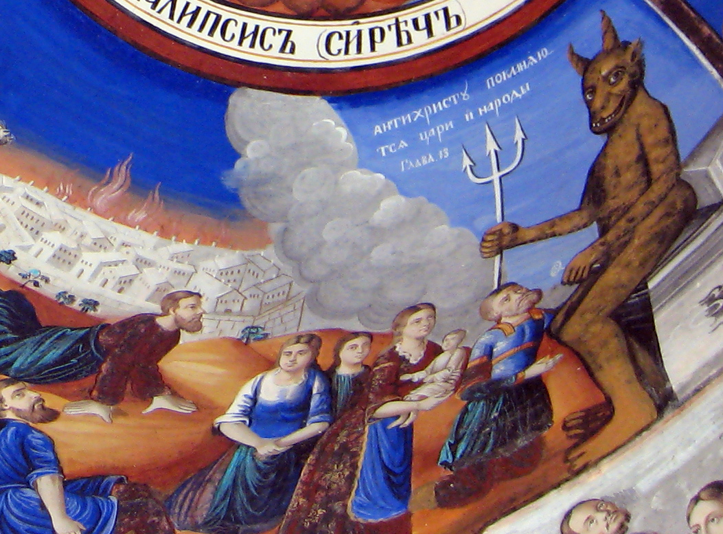 Antichrist - a fresco from Osogovo Monastery, Republic of Macedonia